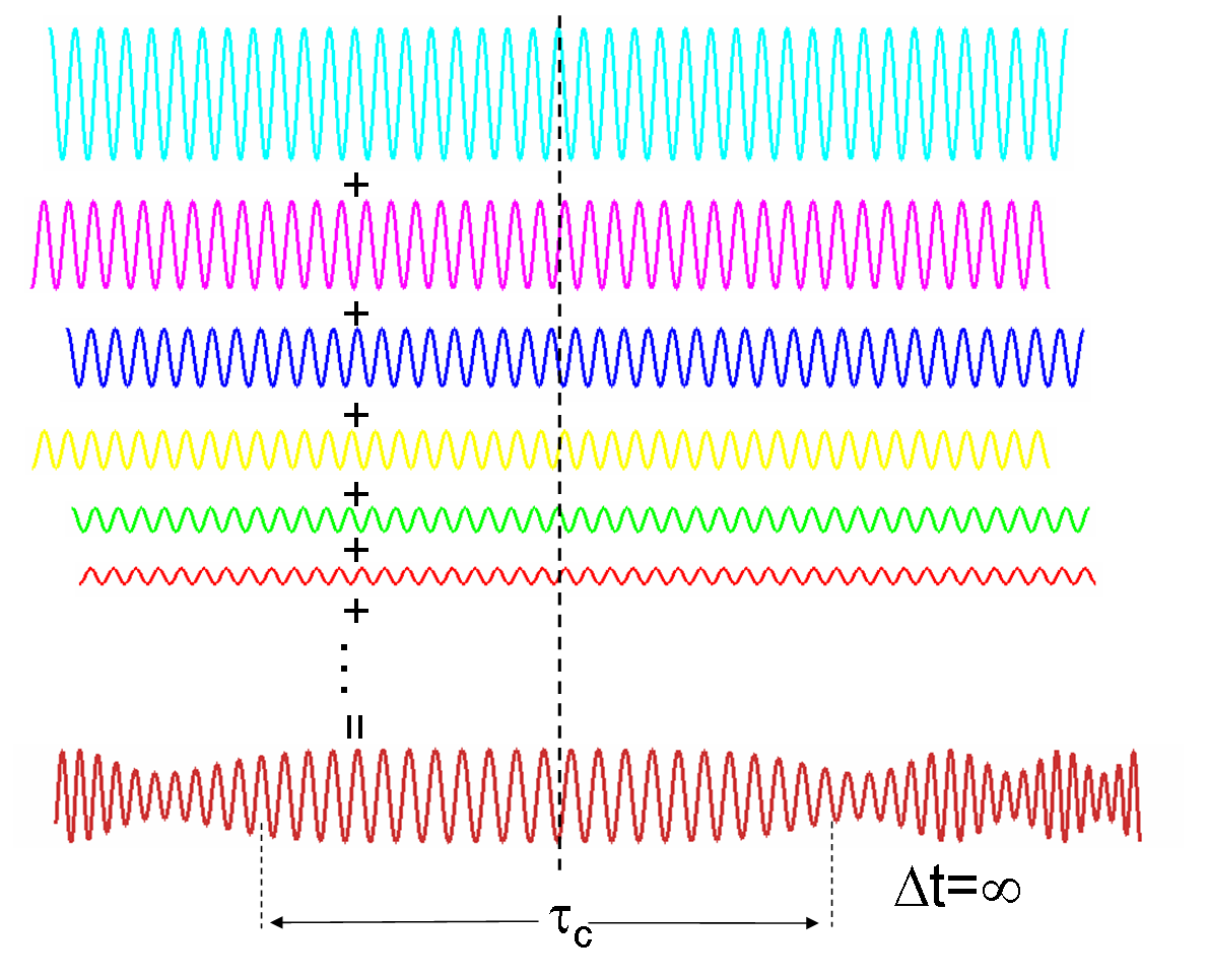 I made this myself.